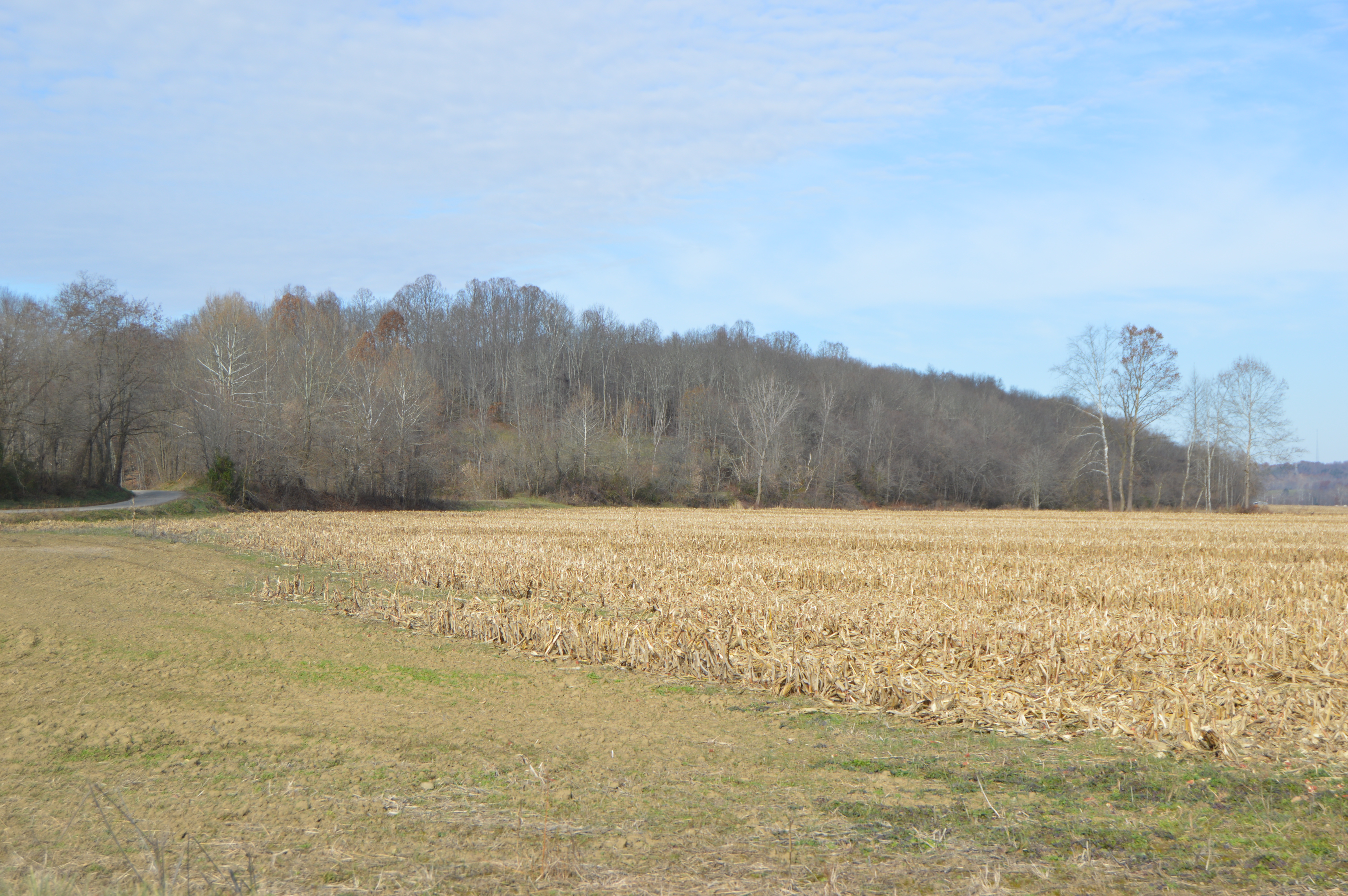 A field on the northern side of River Road just west of Gaysport in Harrison Township, Muskingum County, Ohio, United States.